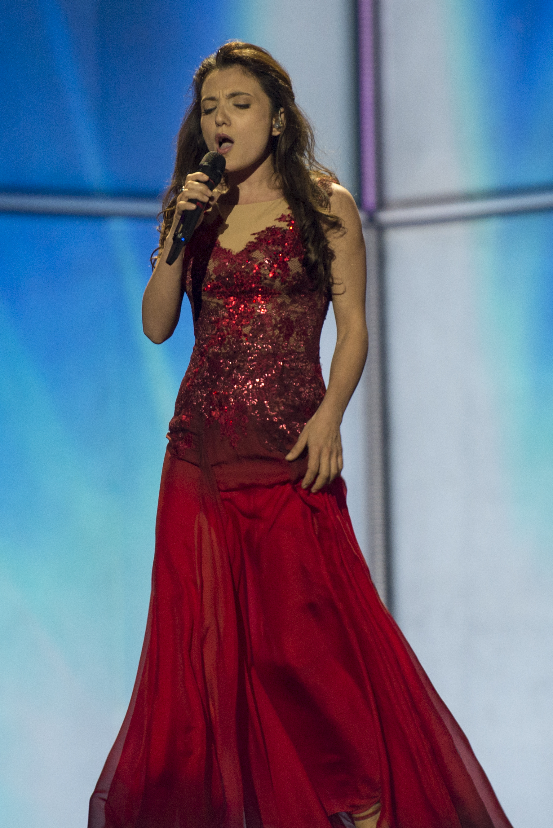 Dilara Kazimova representing Azerbaijan with the song "Start a Fire" during the first dress rehearsal of the first semi final of the Eurovision Song Contest 2014 Copenhagen. (Help translate this text)